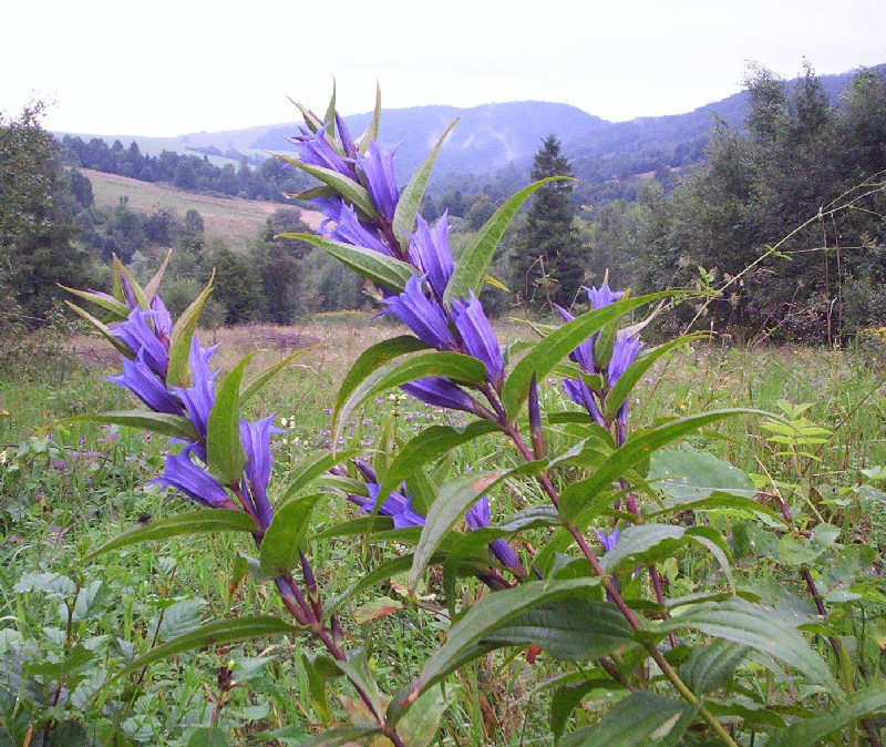 Gentiana asclepiadea on Hyrcza Pass (Bieszczady, Carpathian Mountains, Poland).